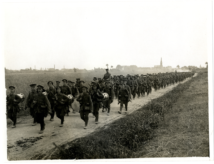 A new army battalion on the march in France [near Merville].